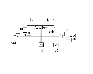 FA/FS-adder complete circuit diagram